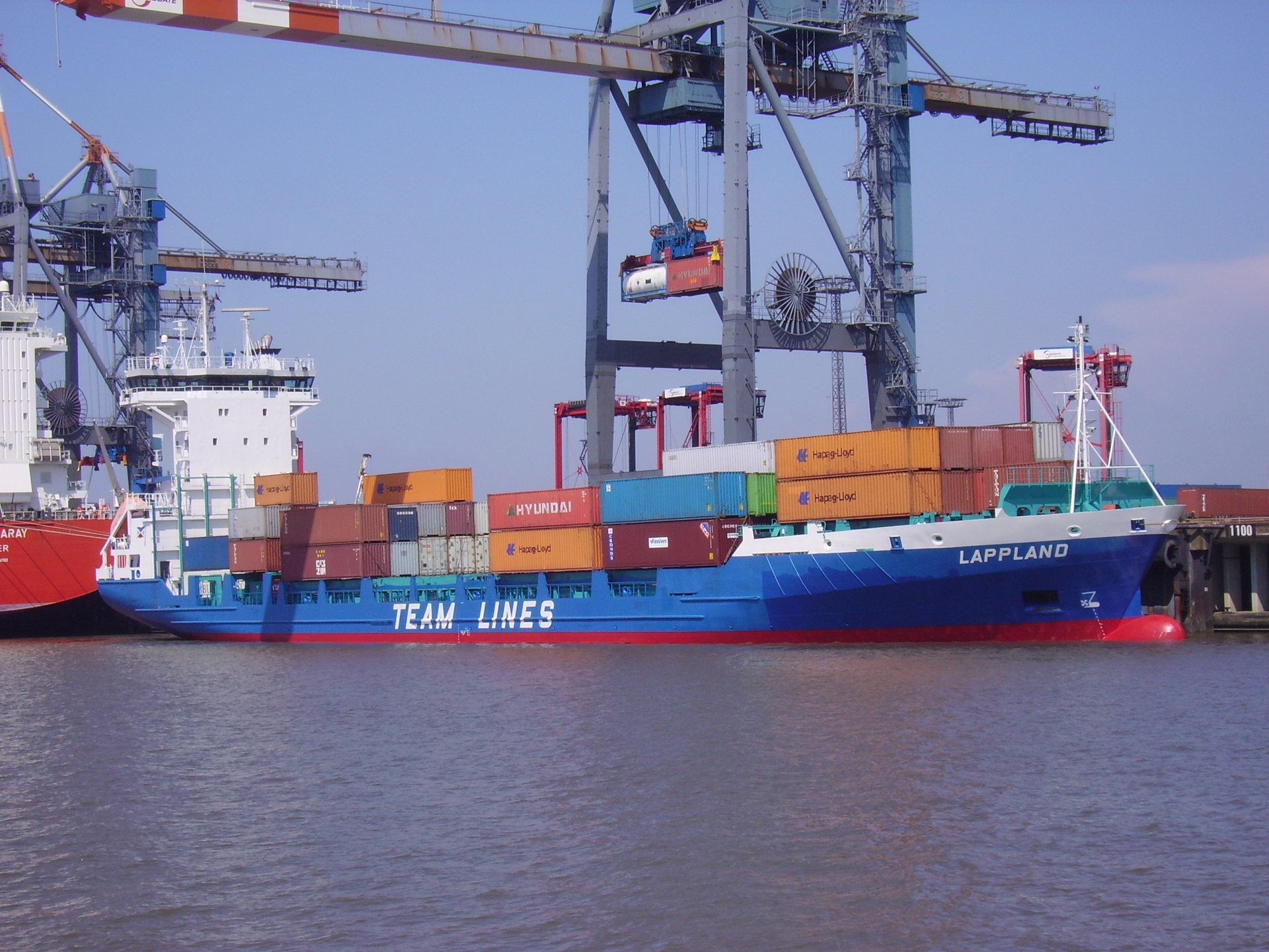 Feeder ship "Lappland" at the container terminal in Bremerhaven, Germany